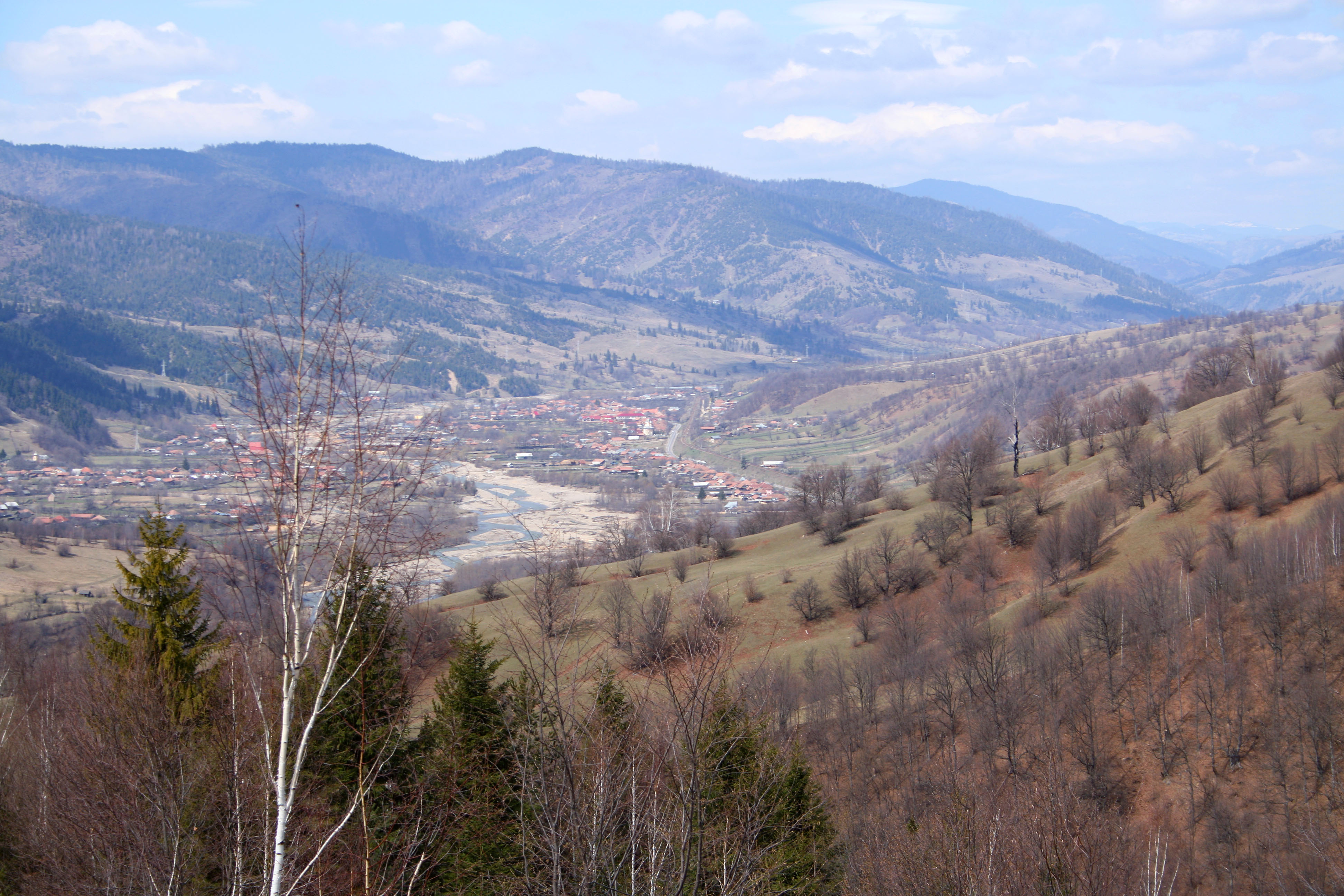 Preluci Village.